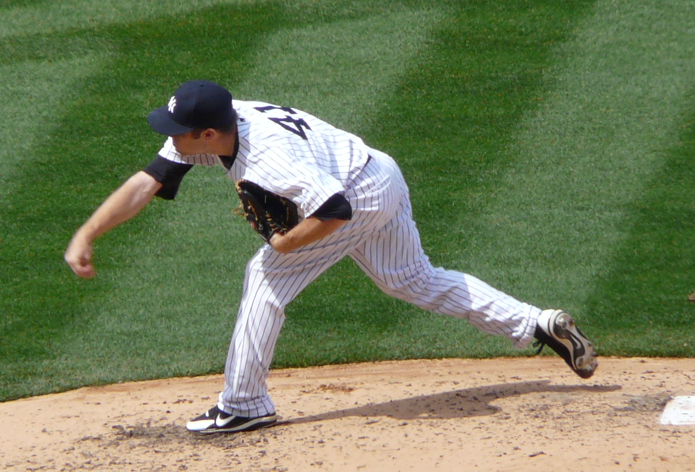 David Phelps